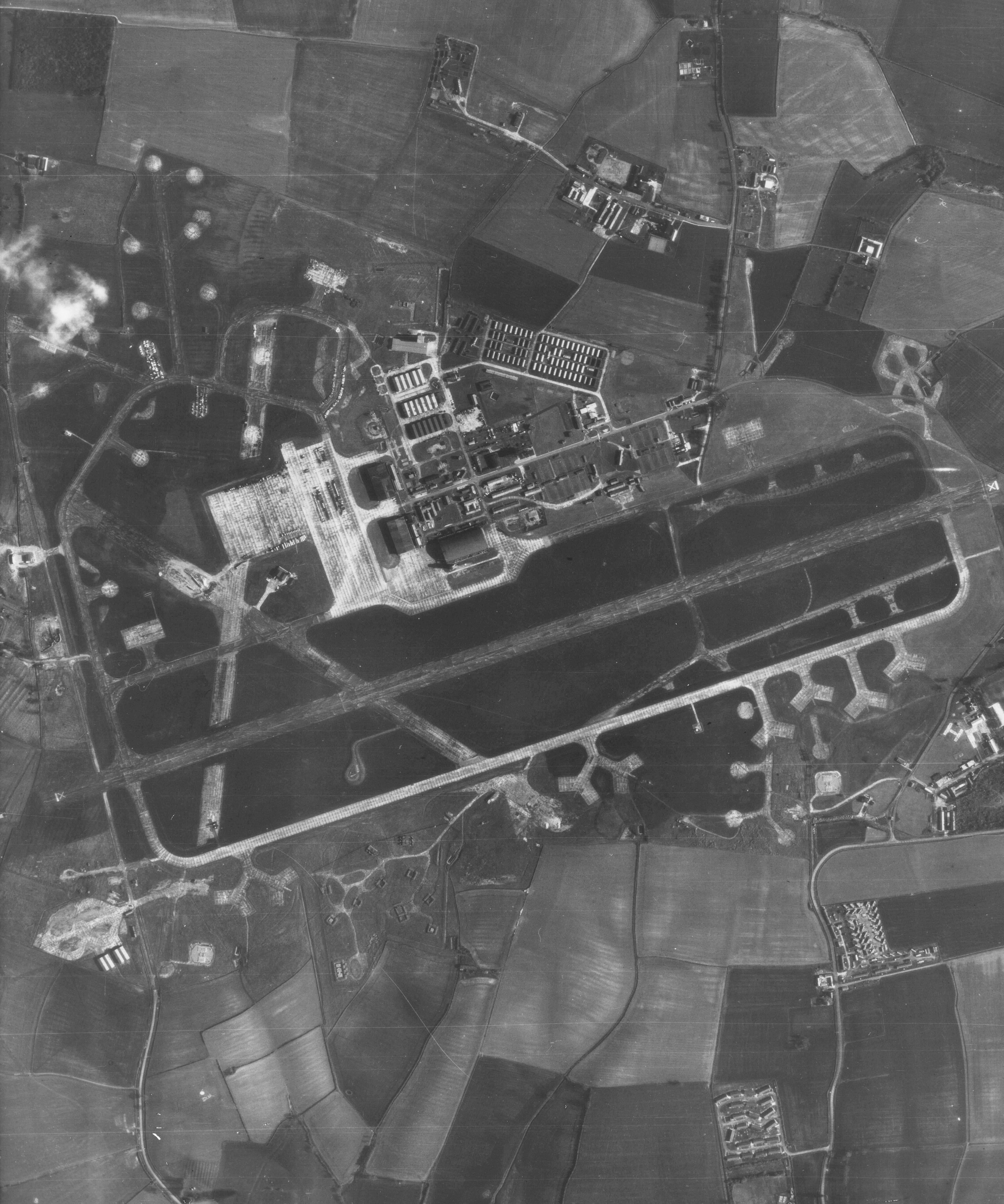 Aerial view of RAF Molesworth, United Kingdom, sometime on the early to mid 1960s.